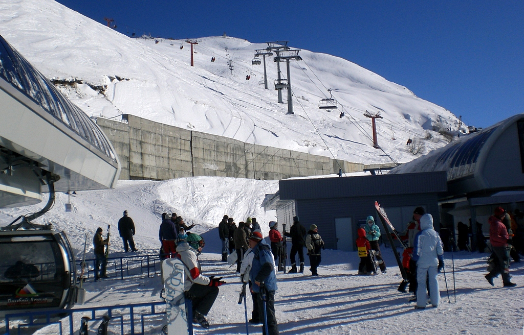 Dombai ski resort in Russia.